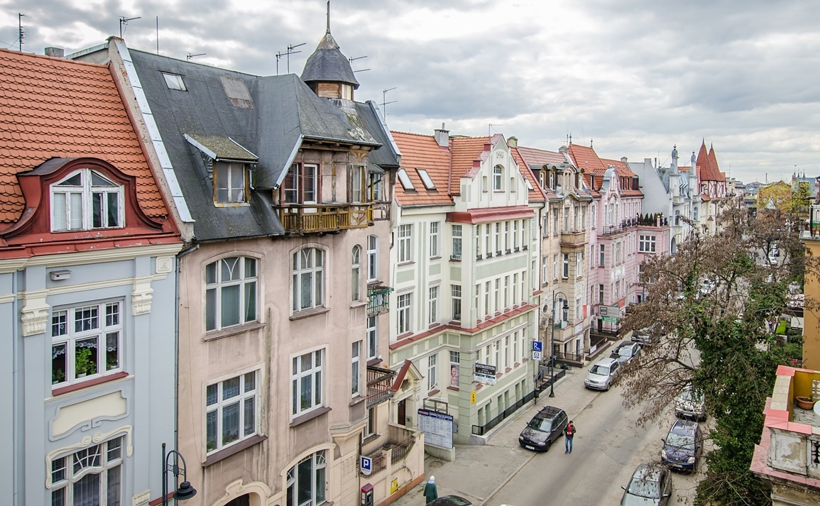 Overview